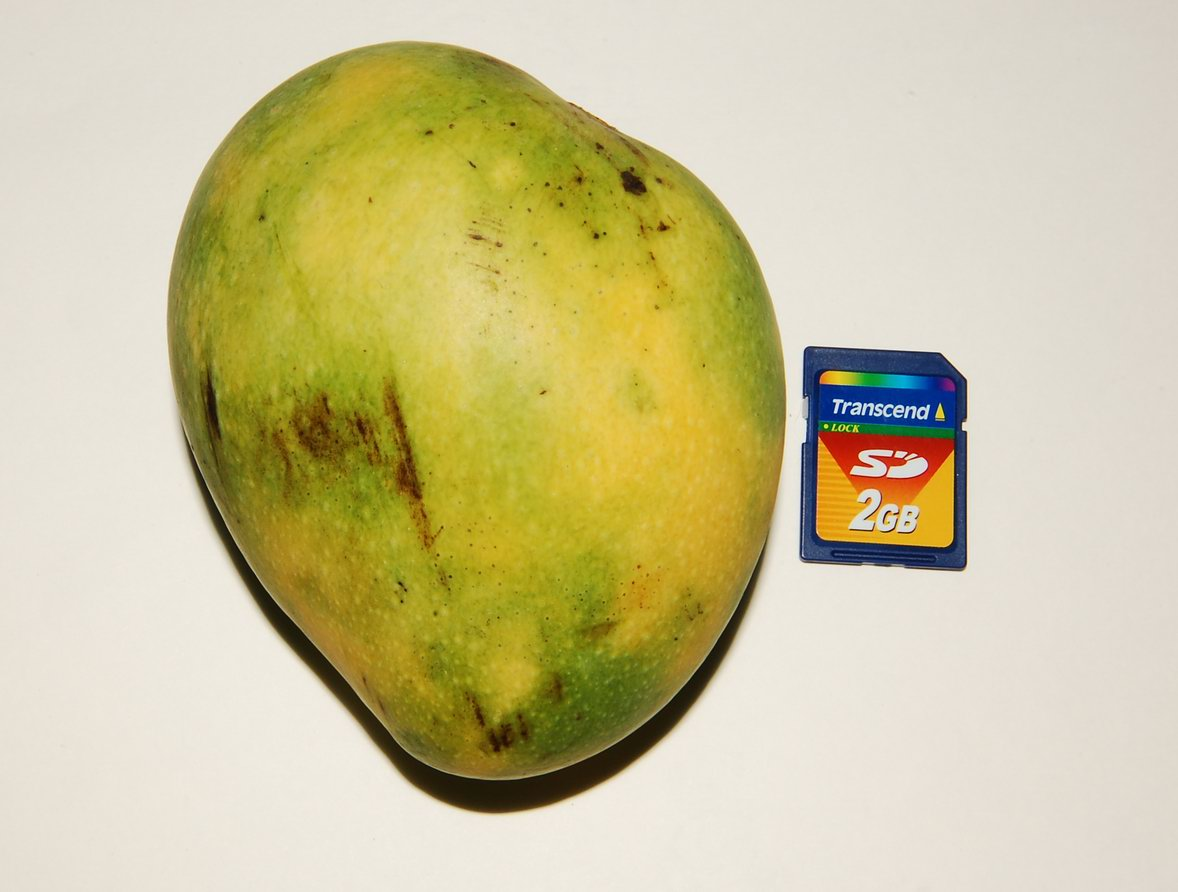 Mango-banganappalli